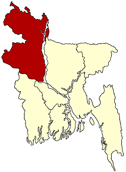 Locator map of Rajshahi Division in Bangladesh